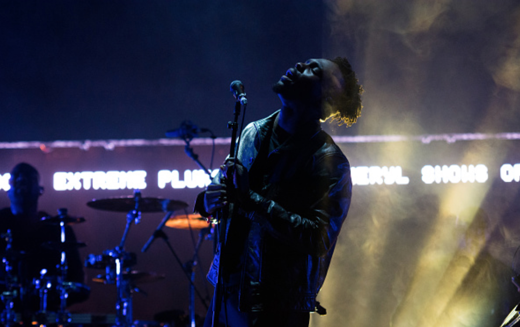 Azekel performing at "British Summertime" in 2016